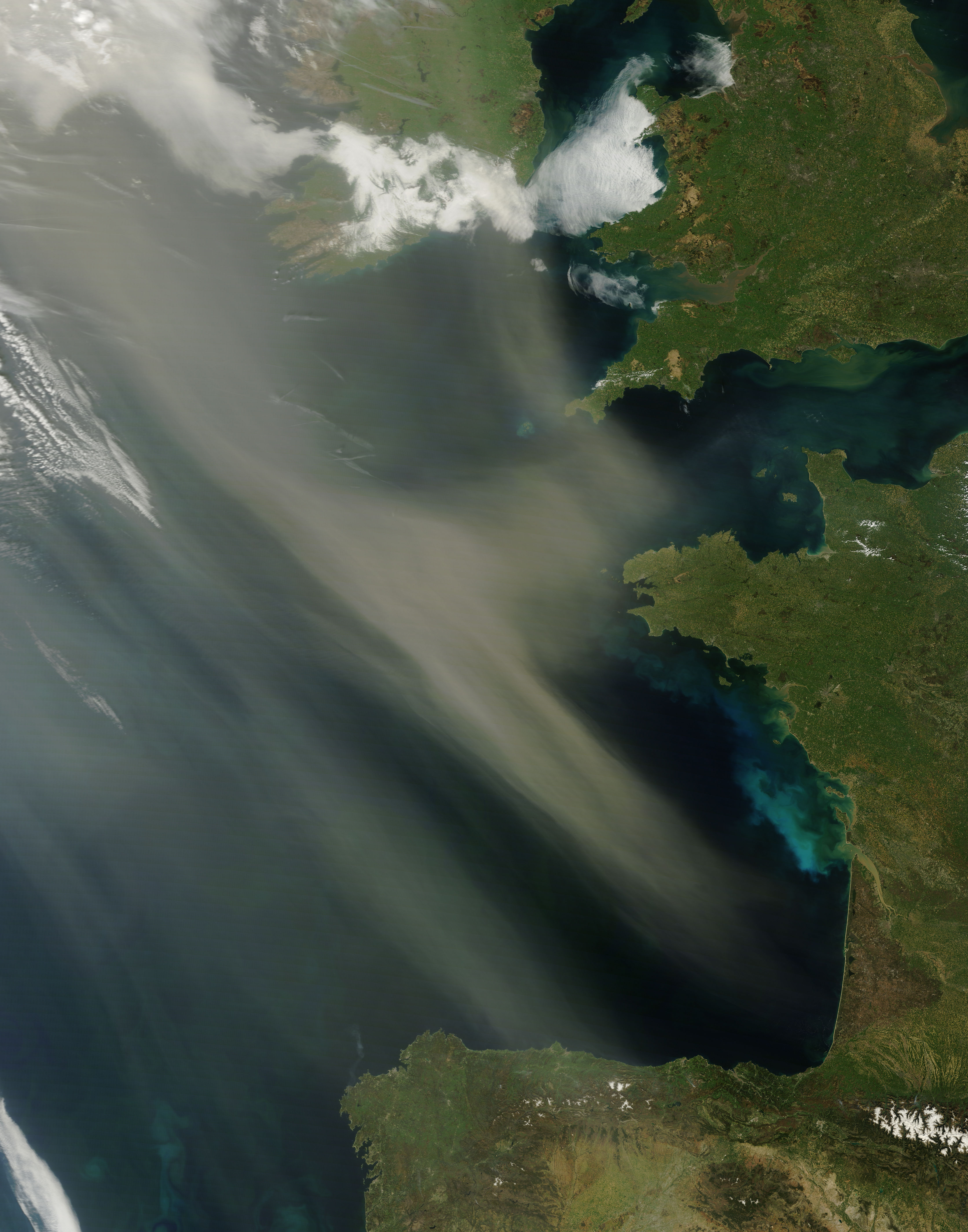 The Saharan dust that hovered off the coast of Portugal on April 6 continued traveling northward toward the United Kingdom and Ireland. The Moderate Resolution Imaging Spectroradiometer (MODIS) on NASA’s Terra satellite captured this natural-color image on April 8, 2011. Beige dust plumes form uneven shapes stretching from Spain to Ireland, where the dust mingles with clouds. The dust appears thickest off the coast of France, but still remains relatively thick hundreds of kilometers to the northwest. The iron content of dust plumes provides nutrients for phytoplankton—microscopic organisms that live in watery environments. The peacock blue swath off the coast of France indicates a phytoplankton bloom, though it is probably not related to the dust plumes appearing in this image.